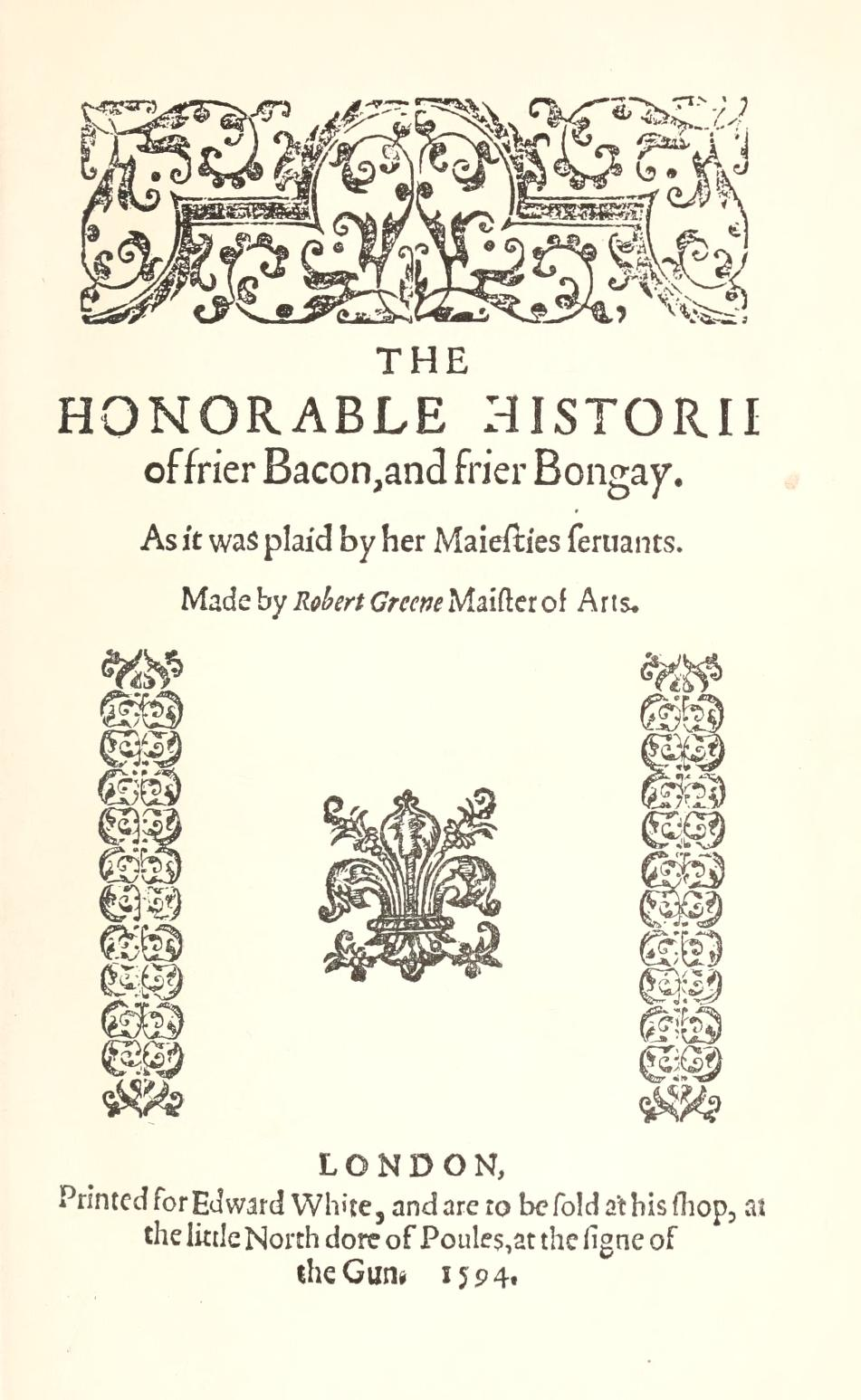 Title page of 1st ed. Robert greene, Friar Bacon and Friar Bungay